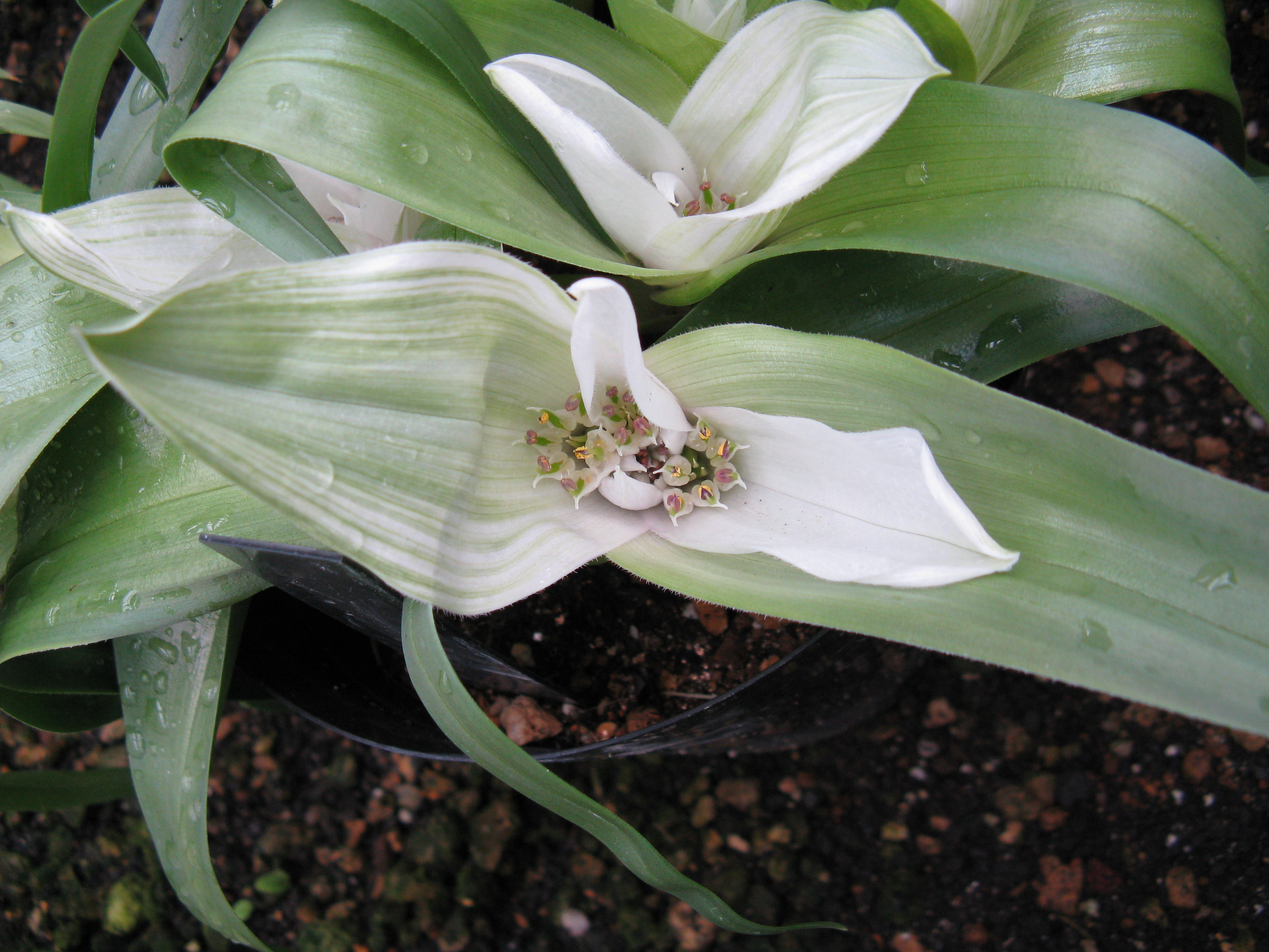 Scientific name Androcymbium ciliolatum Place:Osaka Prefectural Flower Garden,Osaka,Japan